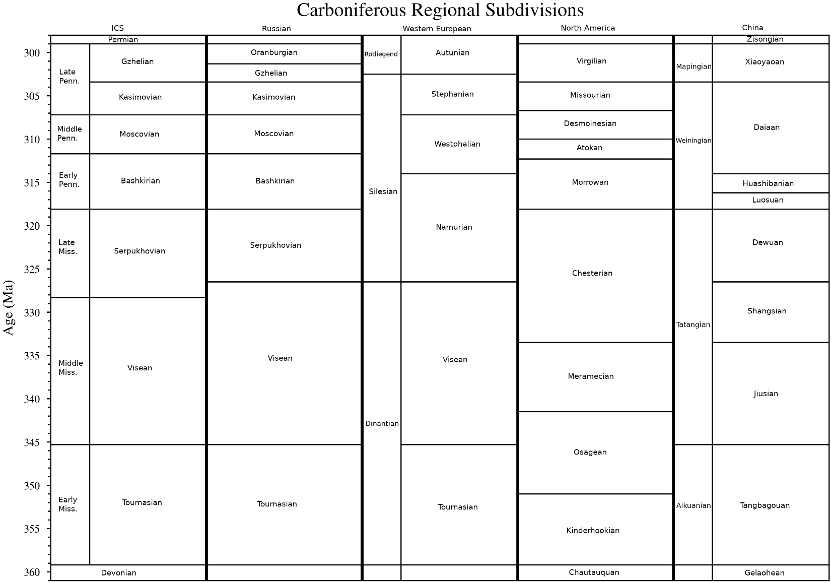 This chart compares various regional subdivisions of the Carboniferous with the ICS subdivisions.